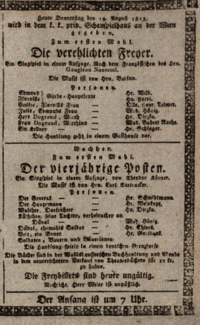 Playbill Der vierjaehrige Posten